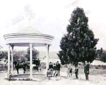 Picture of Hume Spring